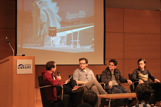 Cardboard Computer at WordPlay Festival 2014